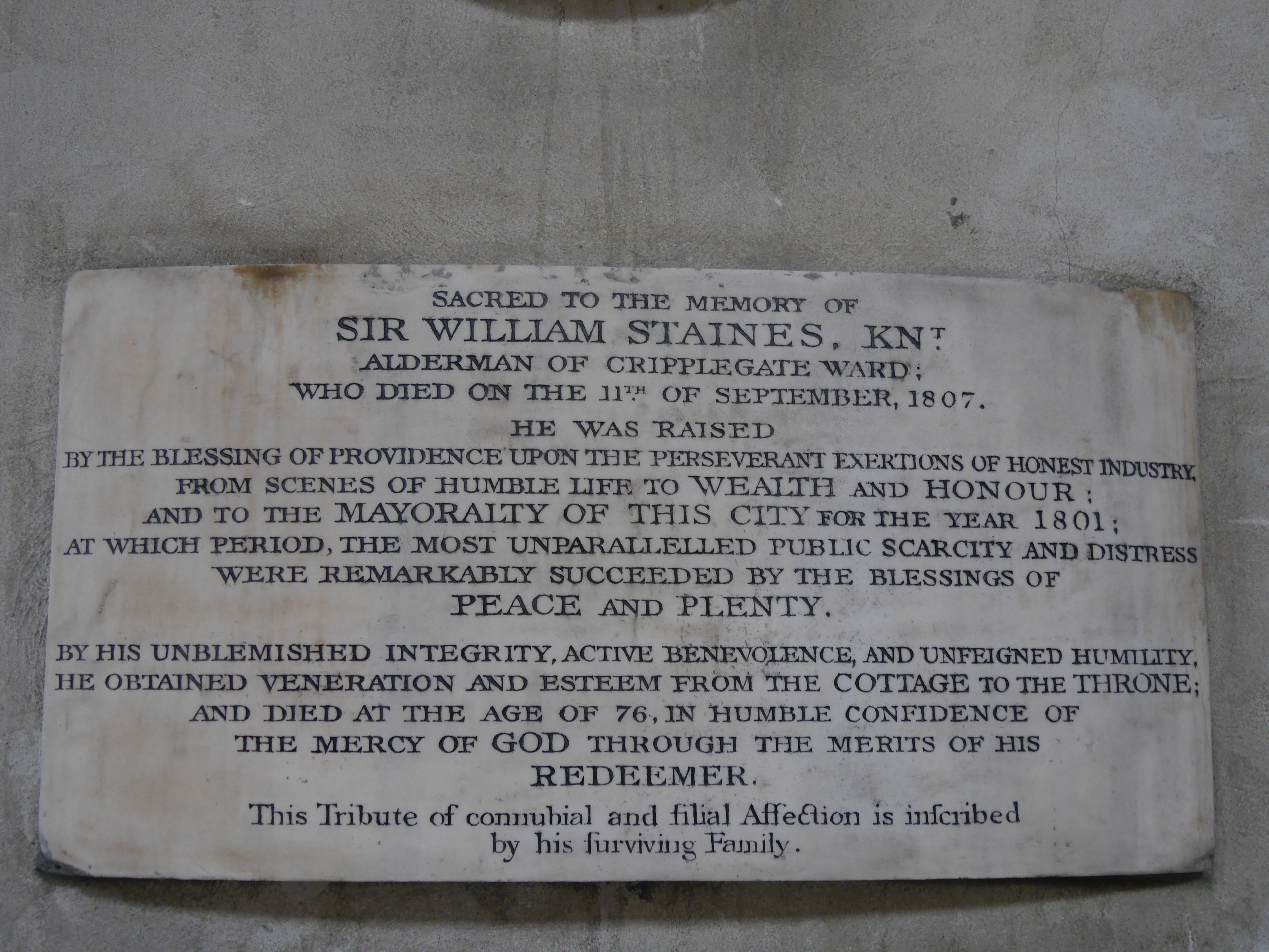 St Giles-without-Cripplegate, London